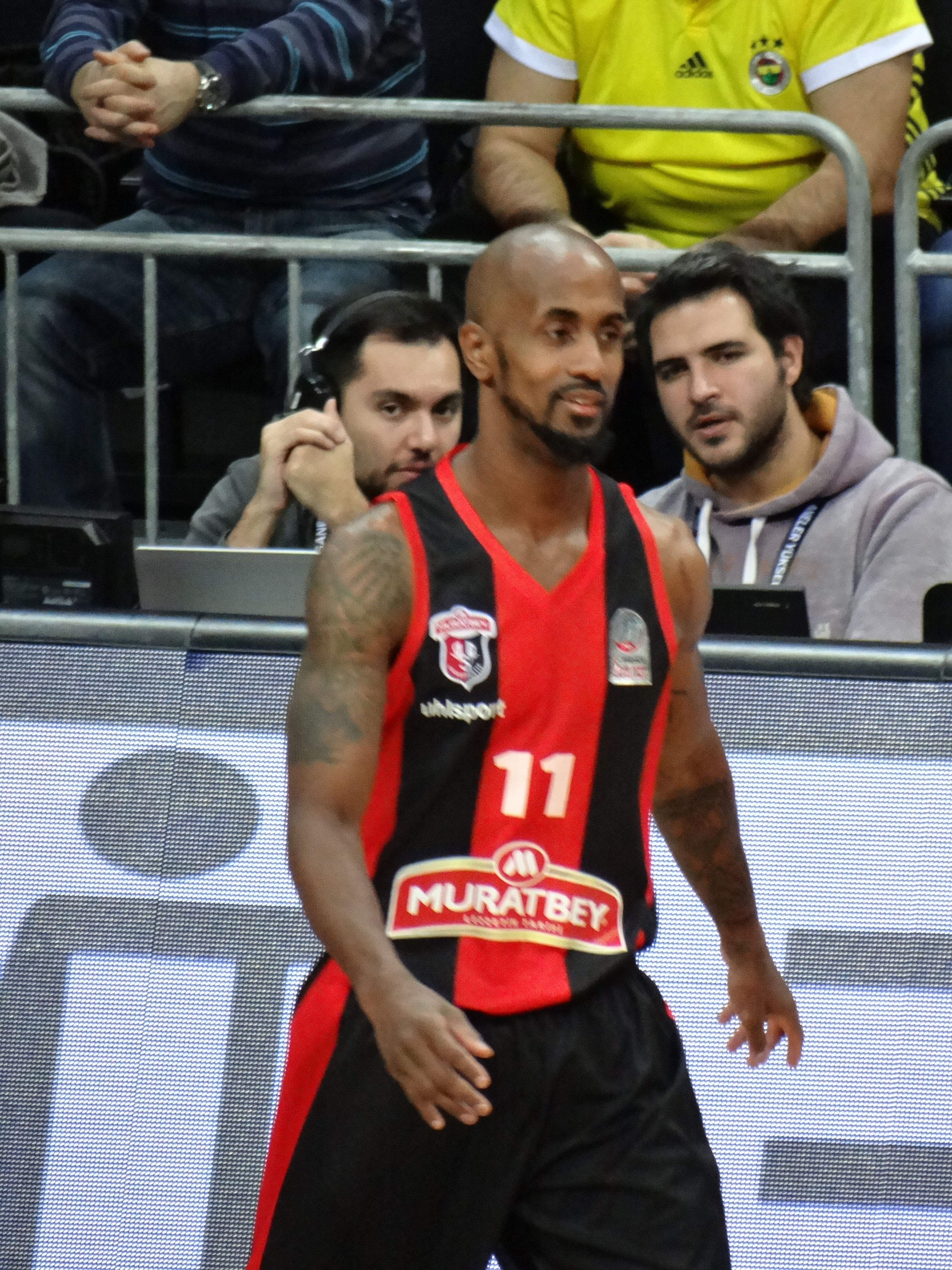 Earl Calloway 11 Uşak Sportif 20171224